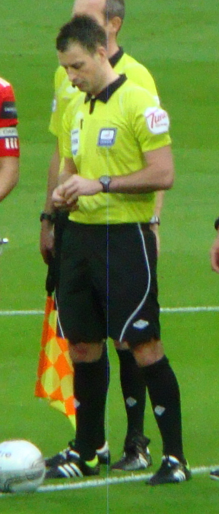 26/02/12 Cardiff V Liverpool, Football League Cup Final, Wembley, London